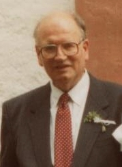 Ferdinand O. Kopp 1992